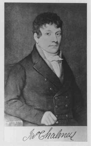 Portrait and facsimile of James Chalmers